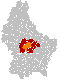 Own edit of Kanton MerschLocatie.png